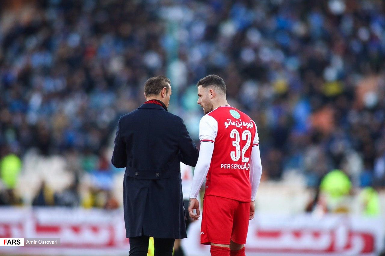 Persepolis F.C. v Esteghlal F.C., 6 February 2020.